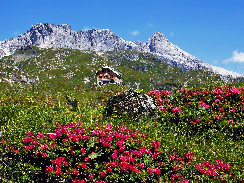 Mosermandl and Franz-Fischer Hütte